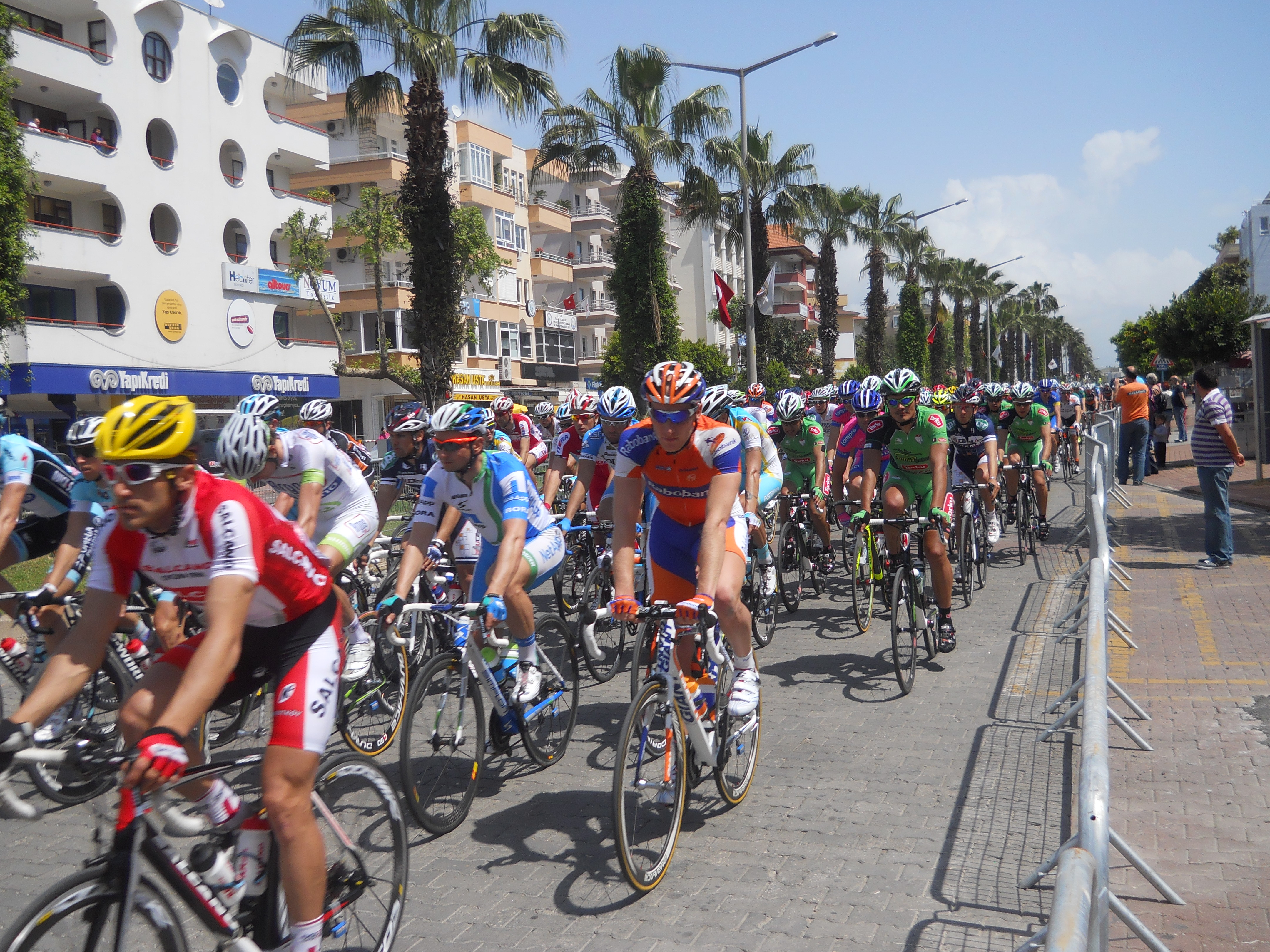 Presidential Cycling Tour of Turkey 2012 Alanya-Alanya stage